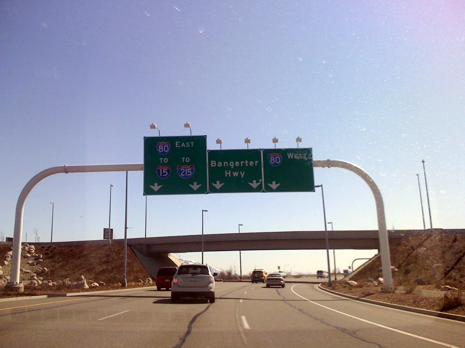 Bangerter Highway southbound leading out of the airport